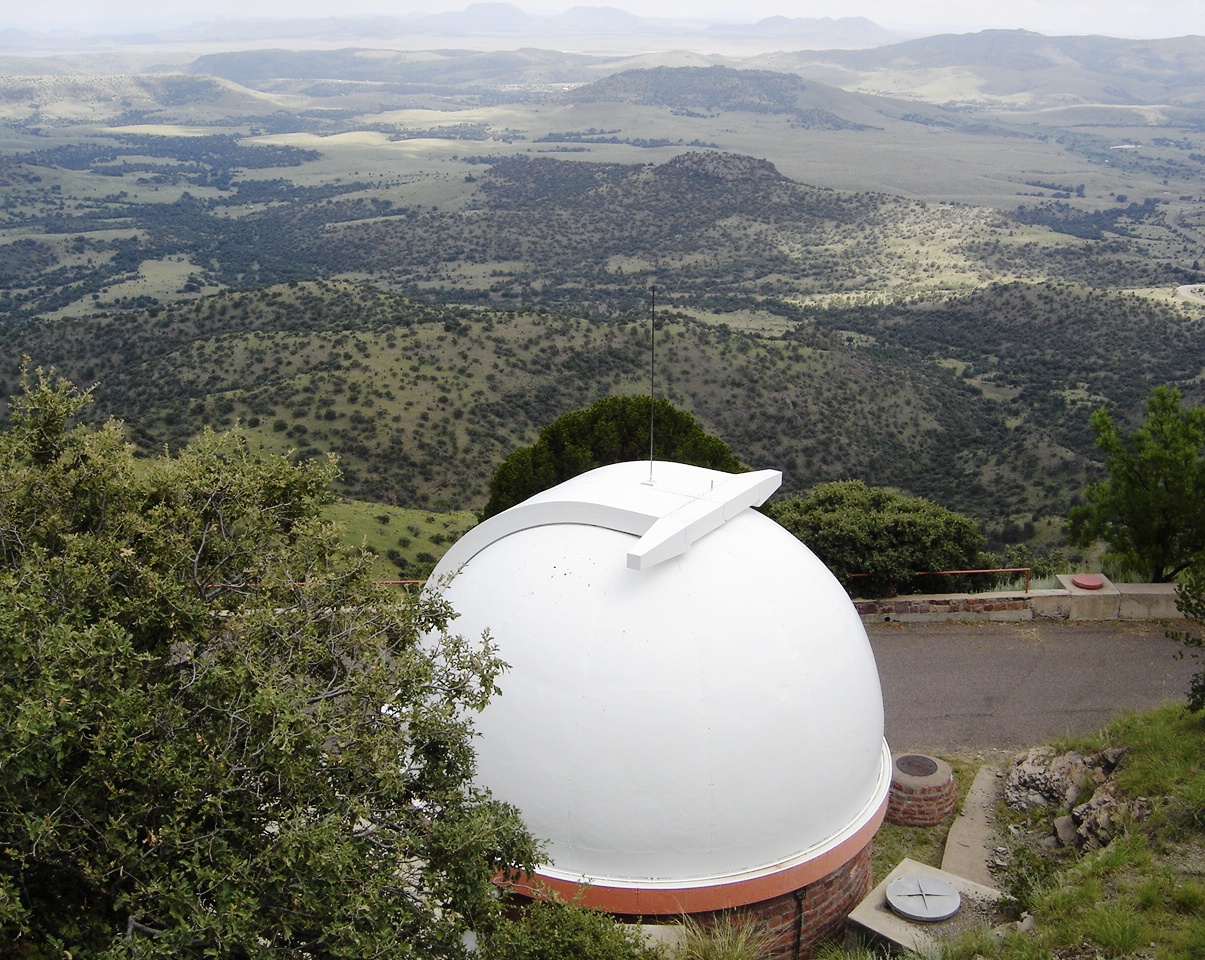 The 36" atop Mt. Locke at the McDonald Observatory, Texas.